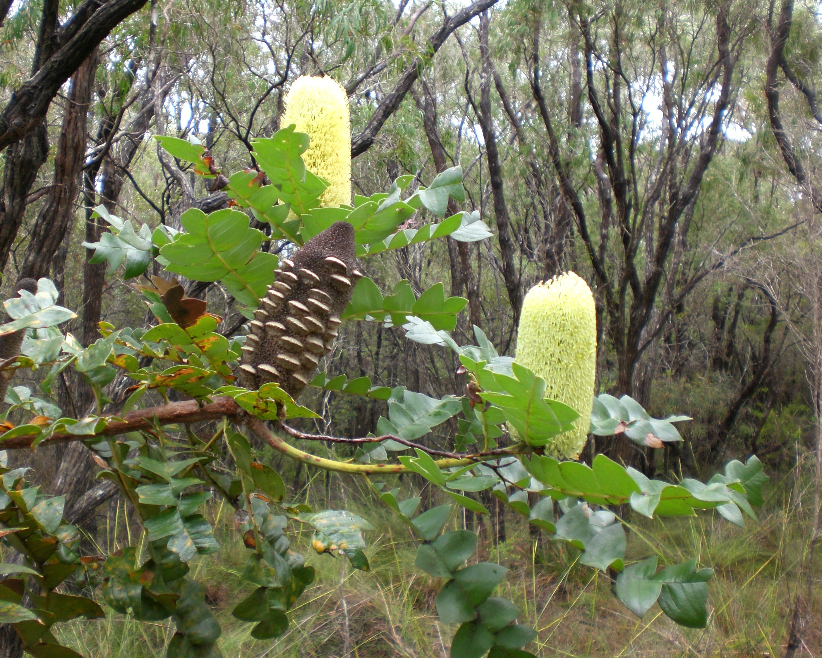 An example of the plant species Banksia grandis near Torndirrup National Park.